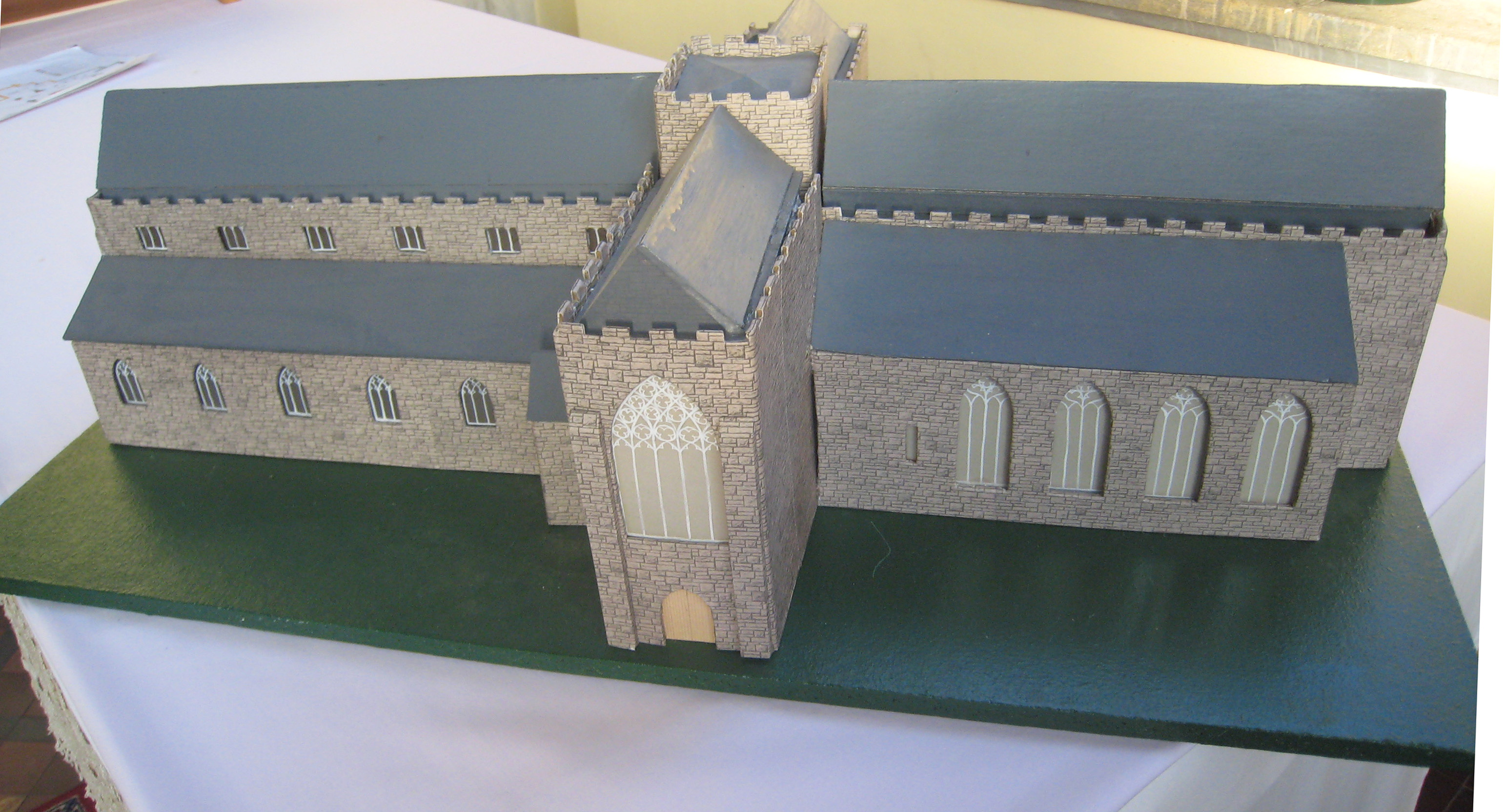 Card Model of Little Dunmow Priory